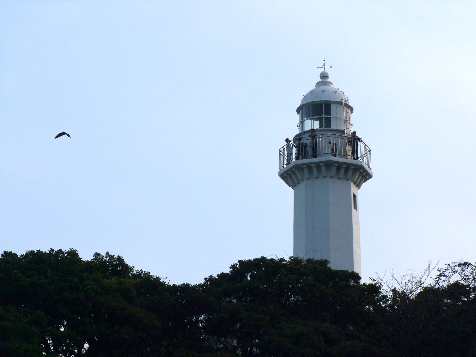 Kannonzaki Lighthouse in Yokosuka, Japan. Fujifilm FinePix S100FS